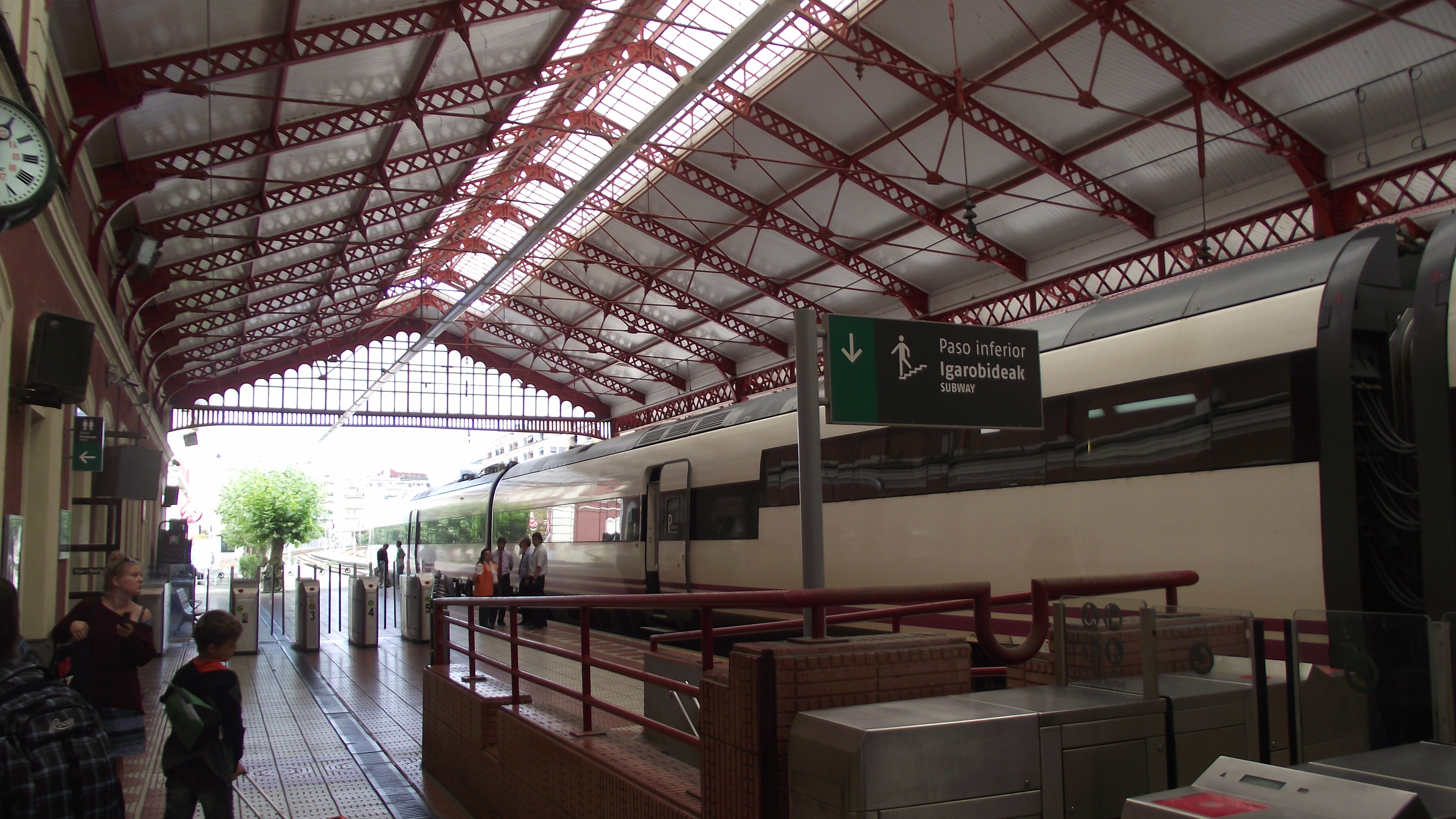 Long distance train Barcelona - Irun stops in San Sebastian